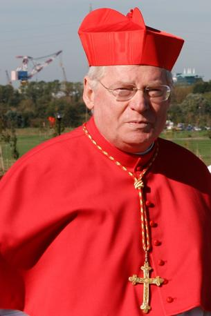 Portrait of cardinal Angelo Scola